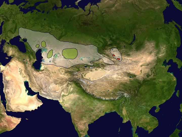 White: historic distribution of the Saiga (Saiga tatarica); green: current distribution of Saiga tatarica tatarica; red: current distribution of Saiga tatarica mongolica